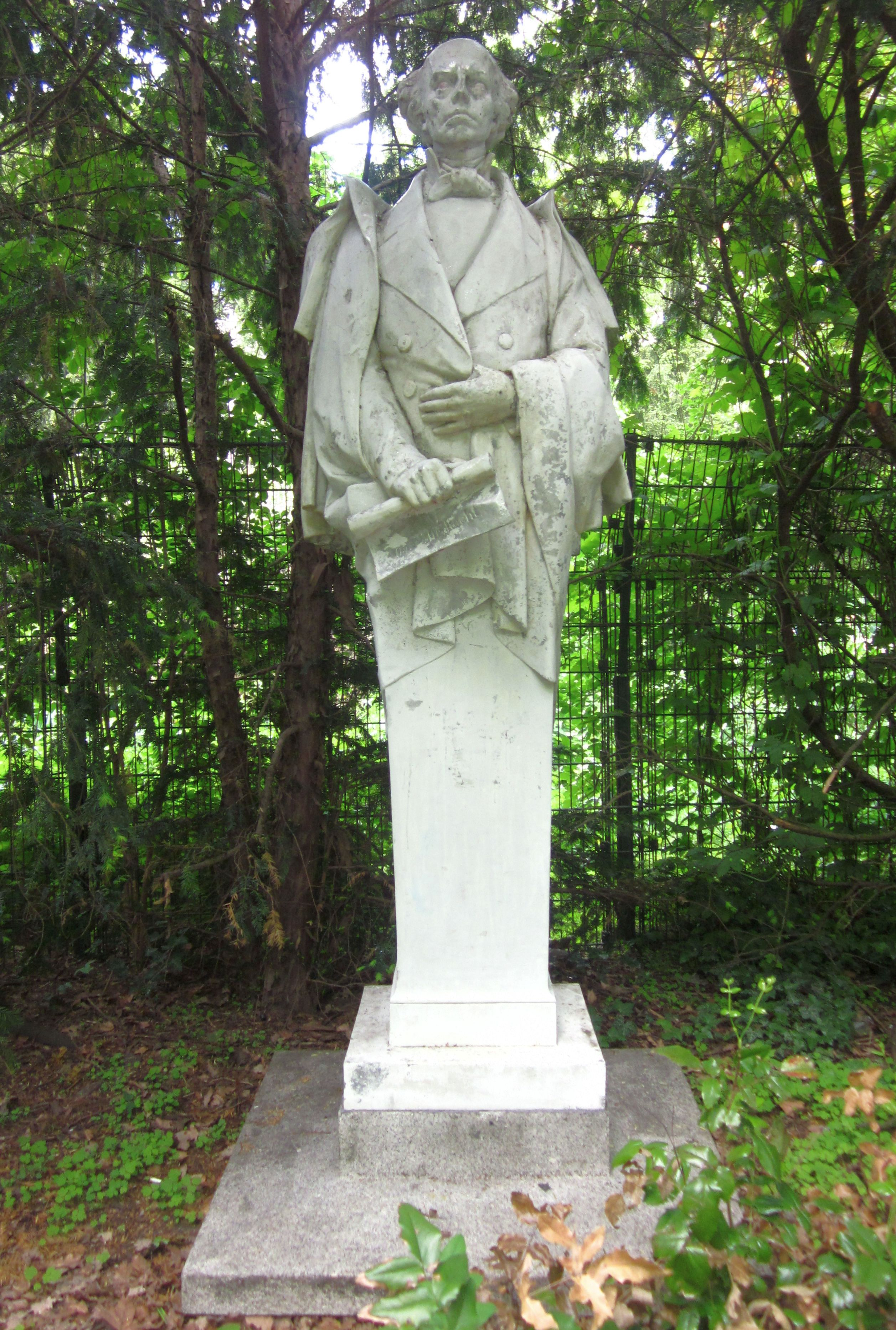 Herma of the poet Ludwig Uhland at Viktoriapark in Berlin-Kreuzberg. The original marble sculpture was created by Max Kruse. It was placed at Viktoriapark in 1899, together with sculptures of other poets of the liberation wars against Napoleon (Kleist, Rückert, Arndt, Schenkdorff, Körner). The hermai of Uhland and Kleist are the only preserved sculptures, but the marble originals were replaced by aluminium copies painted in white in 1989 and can now be found in the schoolyard of the Leibniz Oberschule on Schleiermacherstraße.